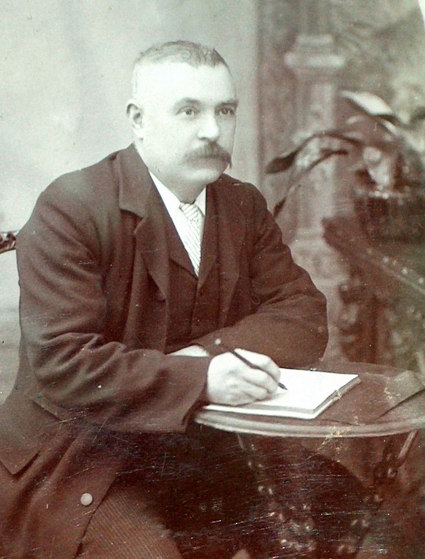 Thomas Grey sits at a table holding a pen over a sheaf of paper